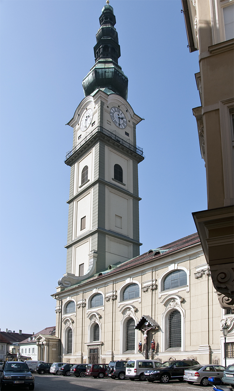 Stadthauptpfarrkirche St. Egid in Klagenfurt, Südseite, von der Glasergasse aus gesehen